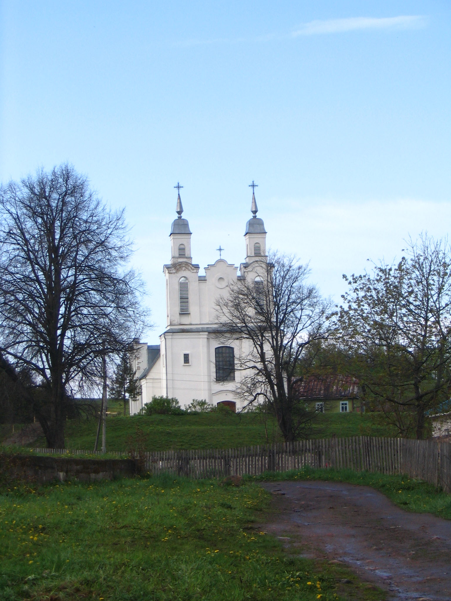 Church of St. Mary in Kreva, Belarus